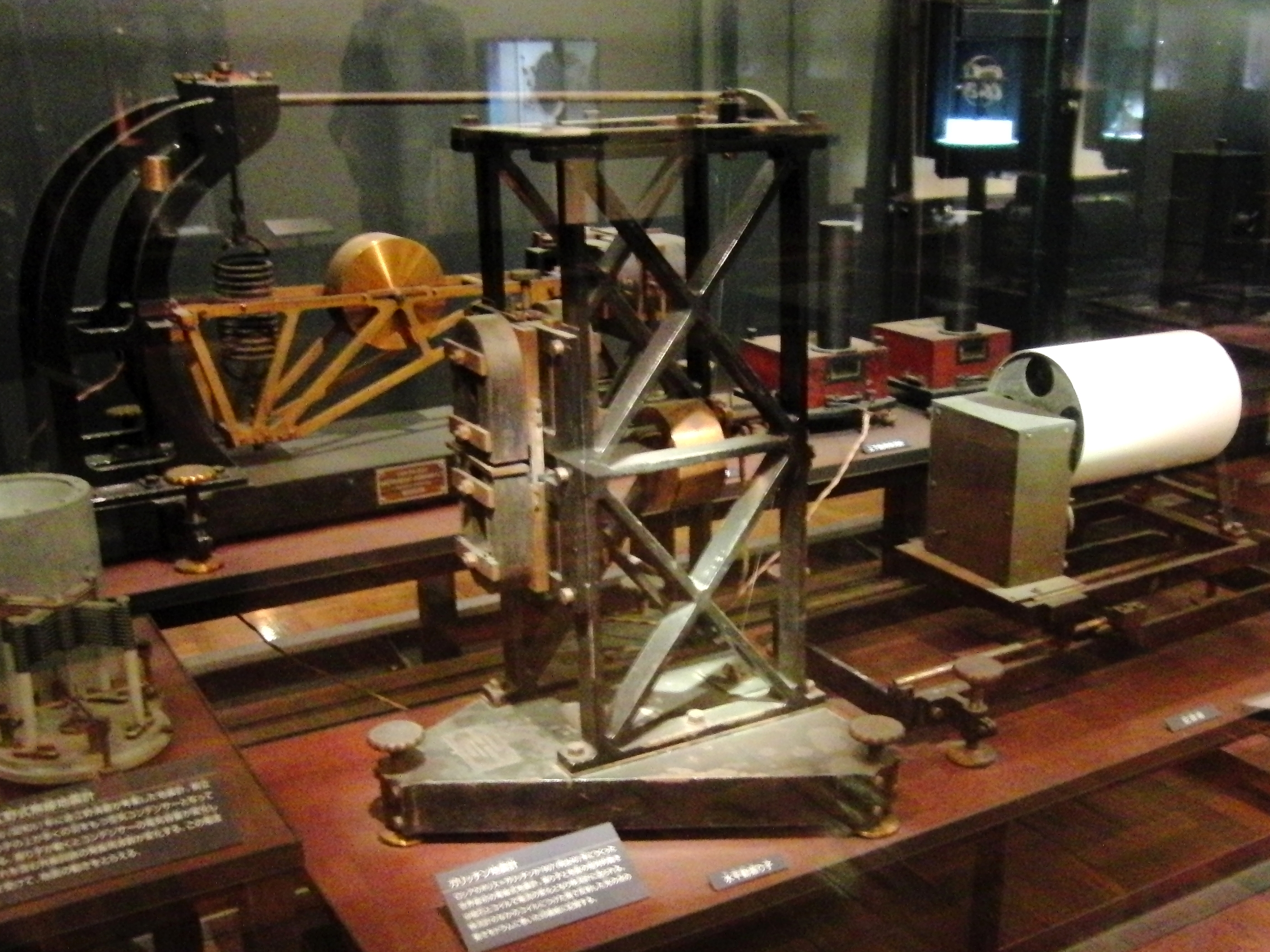 Galitzin seismograph. Exhibit in the National Museum of Nature and Science, Tokyo, Japan.